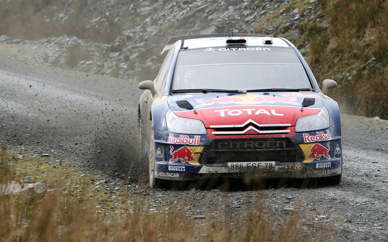 Sebastian Loeb - Citroen Total WRC at Myherin on Wales Rally GB 2009